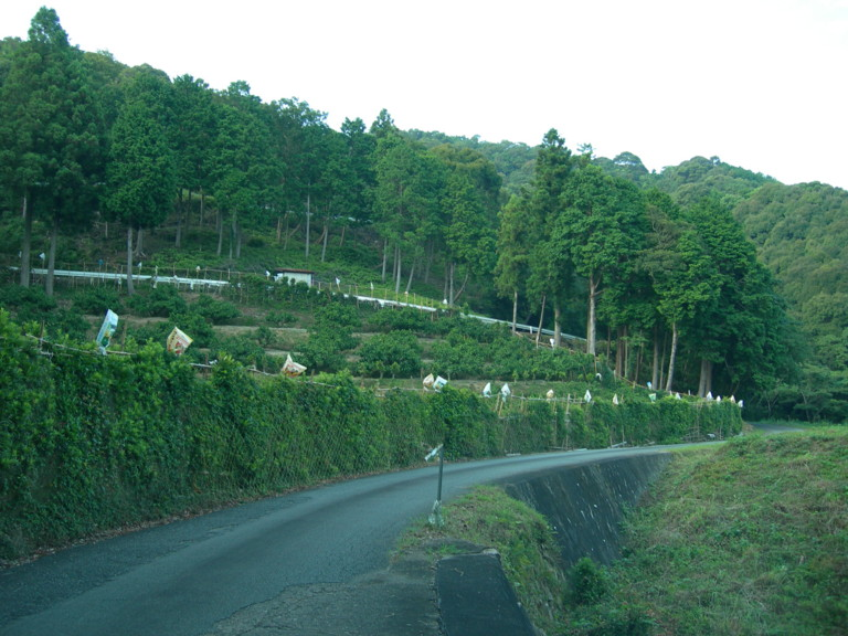 Tsurugi pass at Mie prefectural roads No.12, between Ise and Minami-ise in Japan.